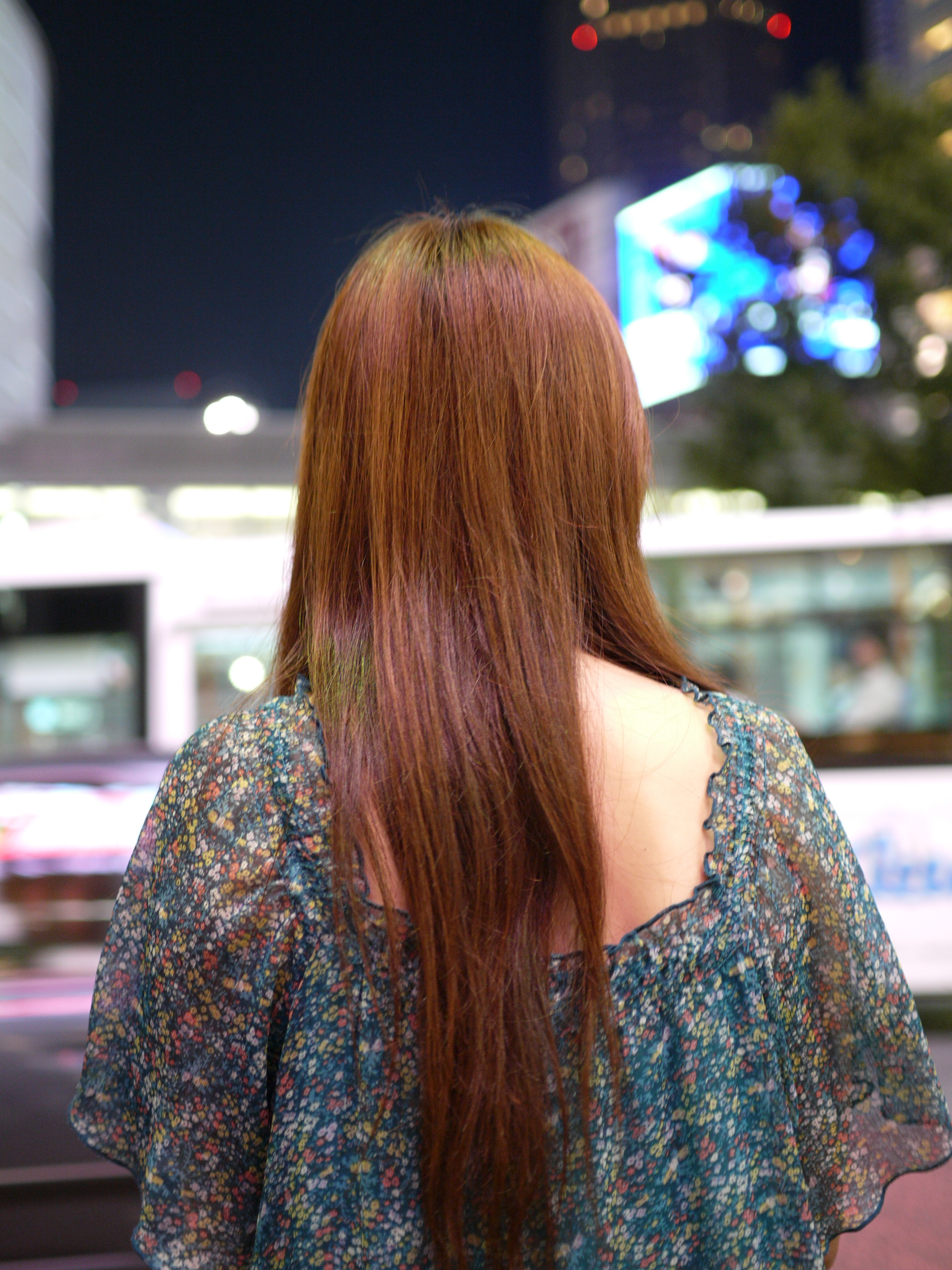 a girl with bohemian tunic on waiting pedestrian signal to chage green at Shibuya Station crossing, P2000439